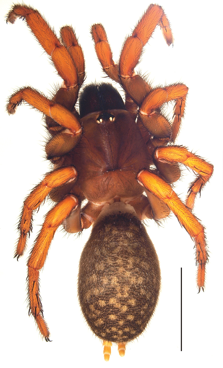 Raveniola chayi, female paratype. Scale bar = 5 mm